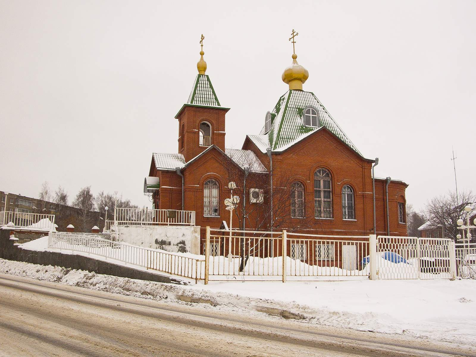 Church of the Nativity, Lukhovitsy